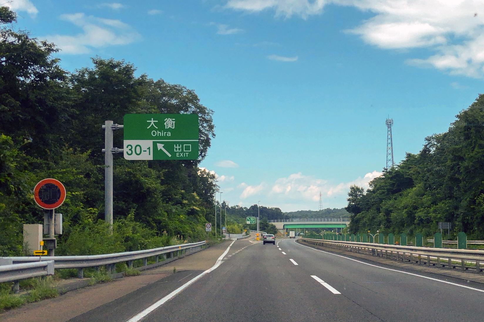 Ohira Interchange on the Tohoku Expressway northbound line in Ohira Village, Miyagi Prefecture, Japan